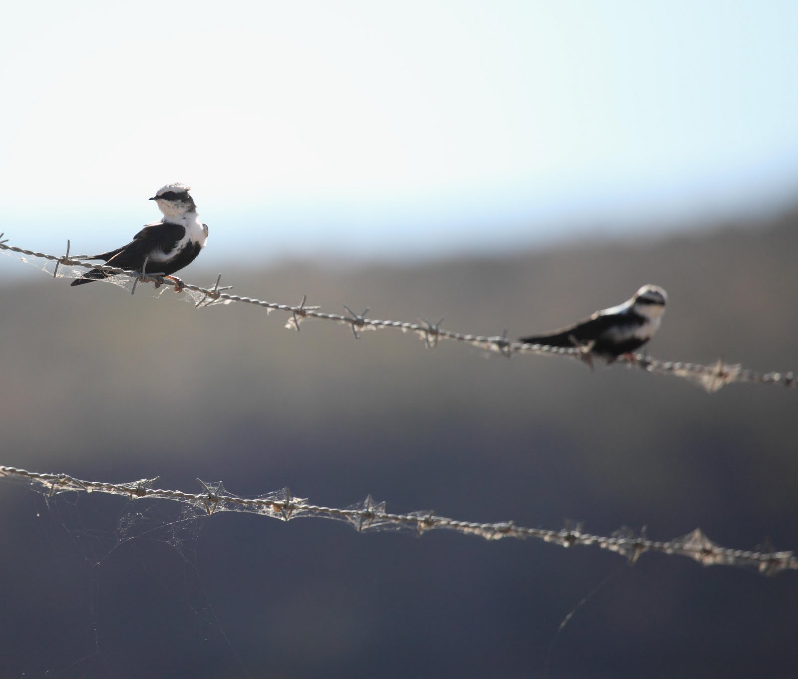 White-backed Swallow (Cheramoeca leucosterna), Northern Territory, Australia